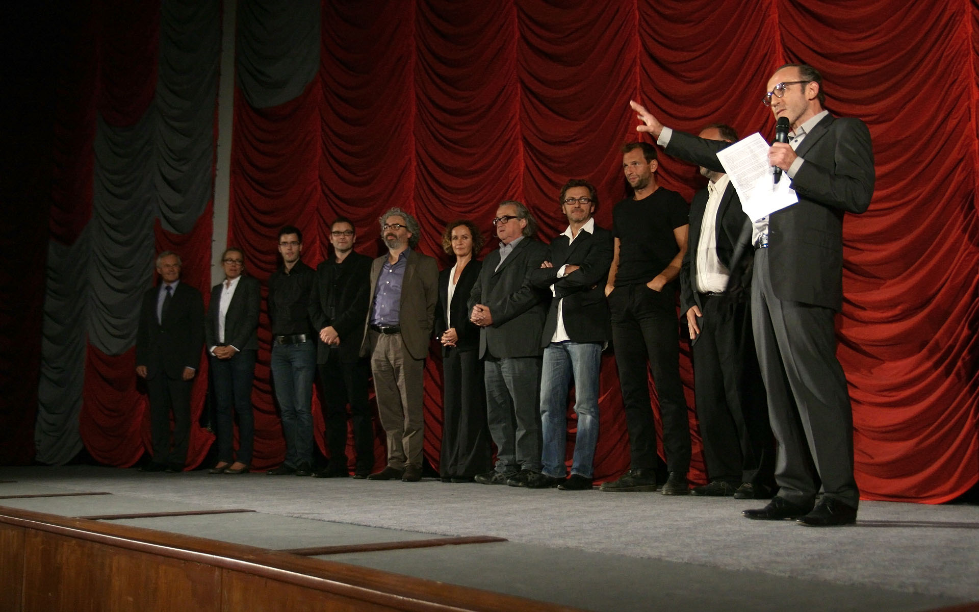 Karl Markovics, cast and crew at the Austrian premiere of his movie Breathing at the Gartenbaukino in Vienna.